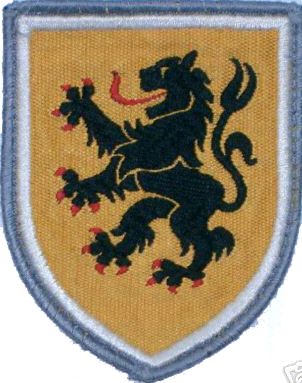 coat of arms of the Bundeswehr (Armed Forces of the Federal Republic of Germany). → Remarks on naming and categorization scheme